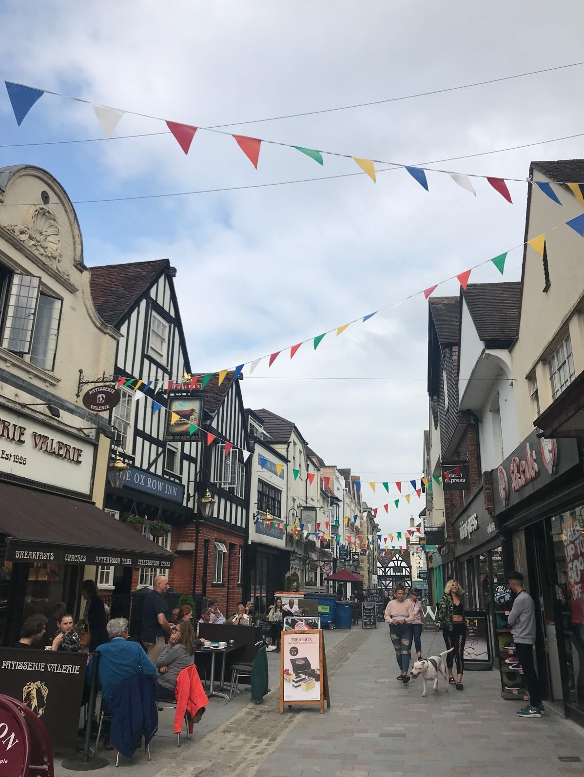 Looking along Butchers Row in the City of Salisbury, England.